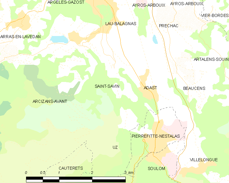 Map of French municipality